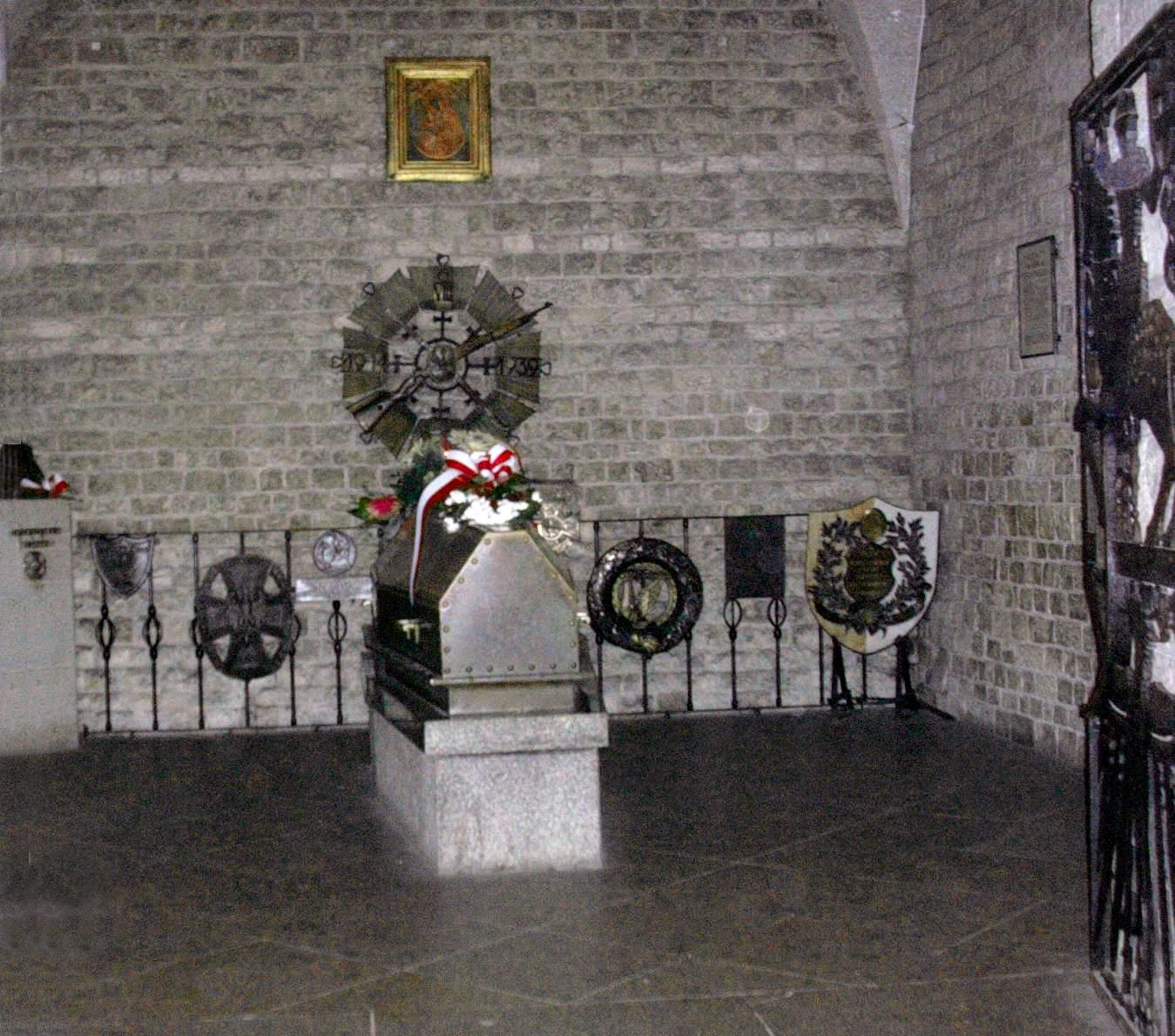 The tomb of Józef Piłsudski - Polish statesman, Field Marshal, first Chief of State (1918–1922) and symbolic leader (1926–1935) of the Second Polish Republic - in Kraków (Cracow)